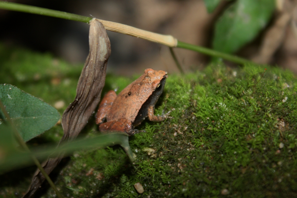 Found next to pools outside Ta Prohm.